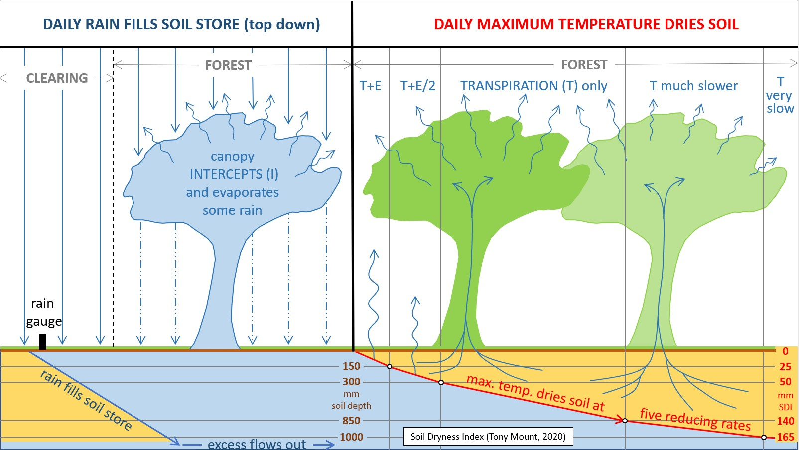 A conceptual diagram showing soil in a forest wetting and drying related to daily rainfall and maximum temperatures